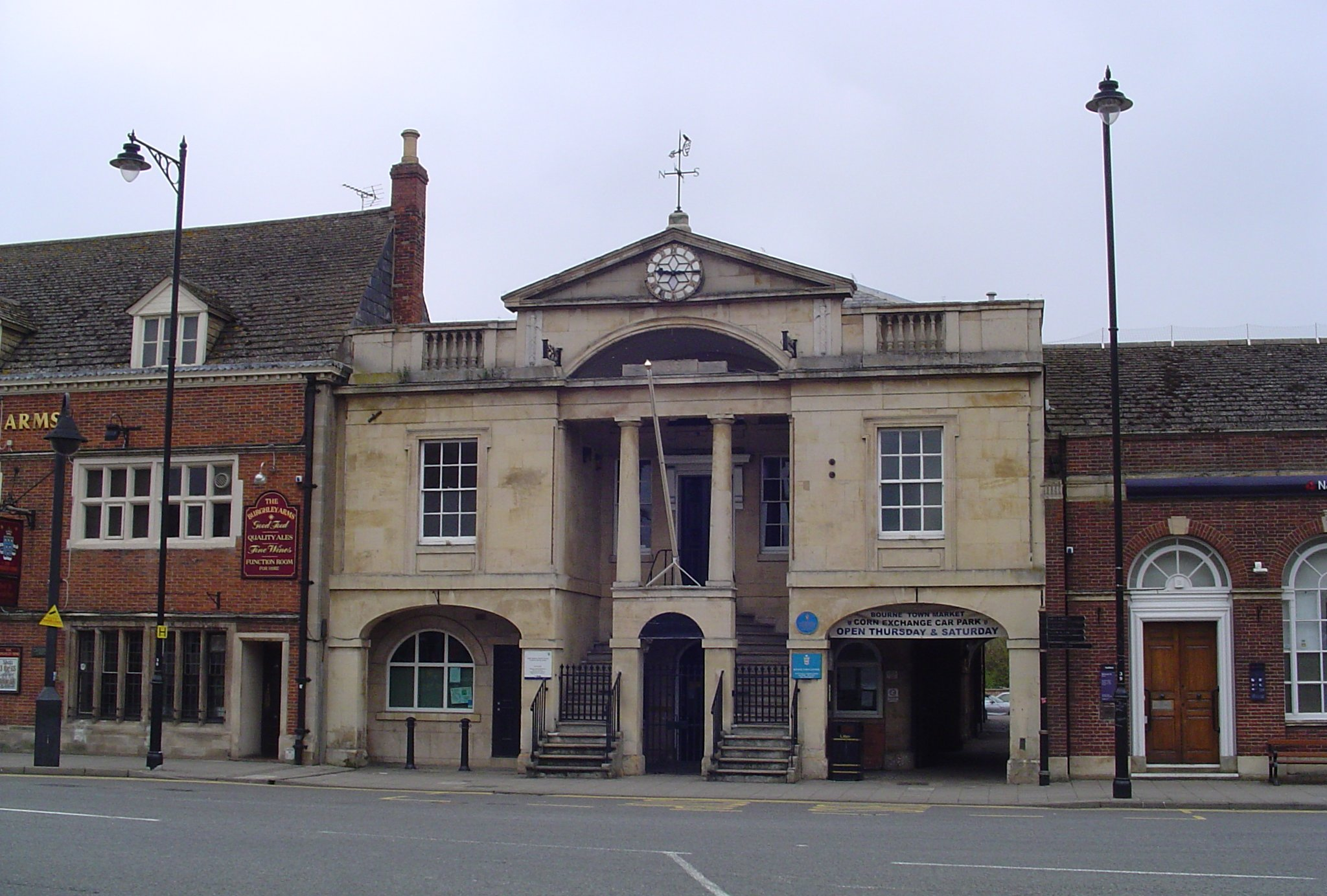 Bourne Town Hall